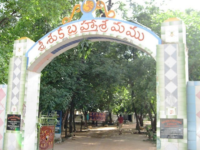 The Ashram Entrance